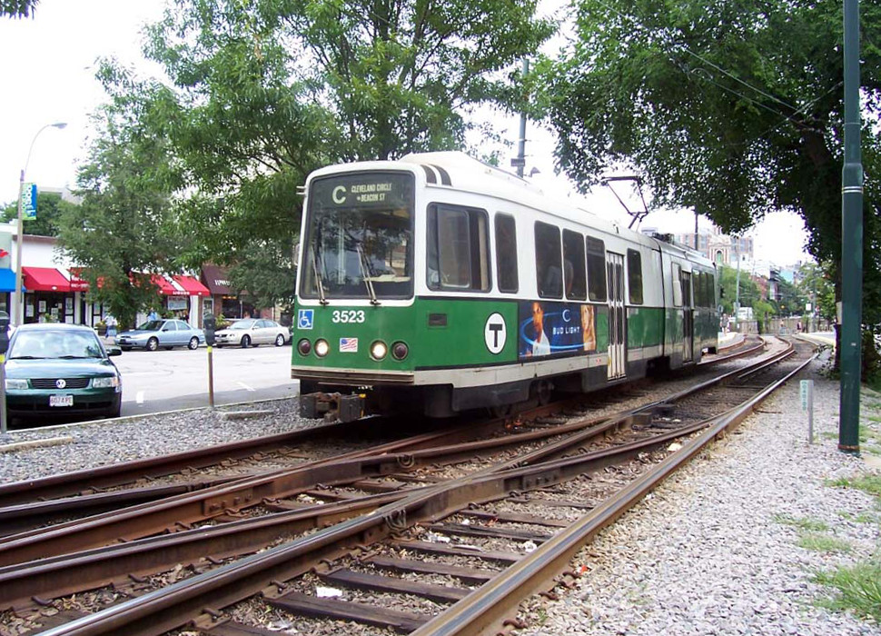 Boeing Vertol USSLRV #3523 on the Green C line bound for Cleveland Circle. This car has since been retired and scrapped. The St. Mary's Street surface stop is visible in the background. Compared to the original, this photograph has been rotated so that verticals are upright and cropped slightly to return the photograph to rectangular dimensions.